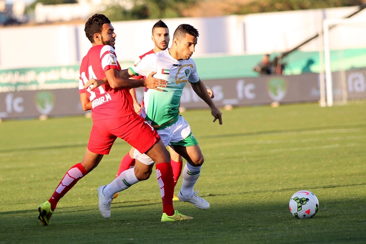 Rodrigo Souza Silva in a match against Fujairah 11 November 2014 Emirates Club Ground Photographer email id